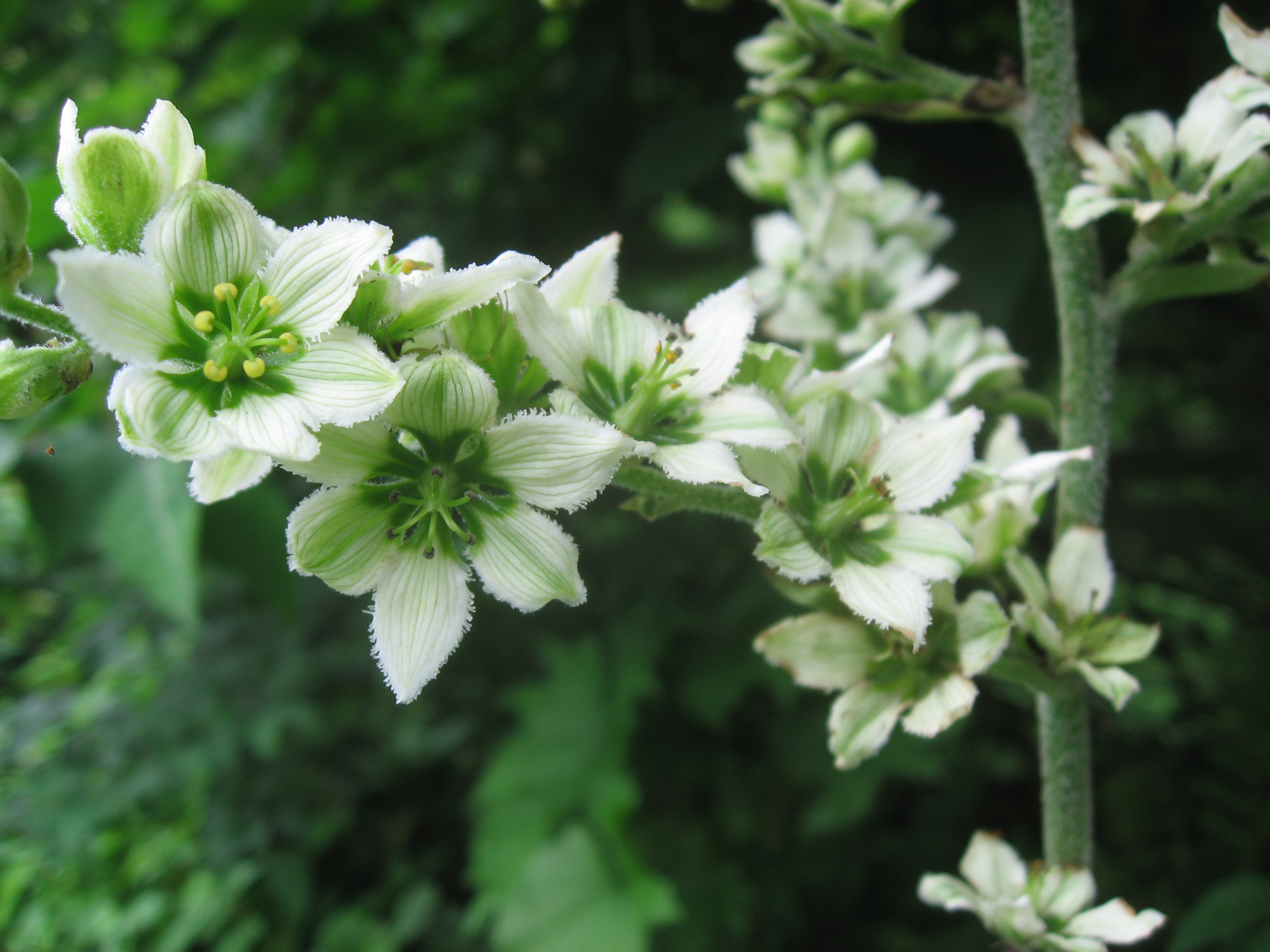 Veratrum album subsp. oxysepalum,Aizu area,Fukushima pref.,Japan